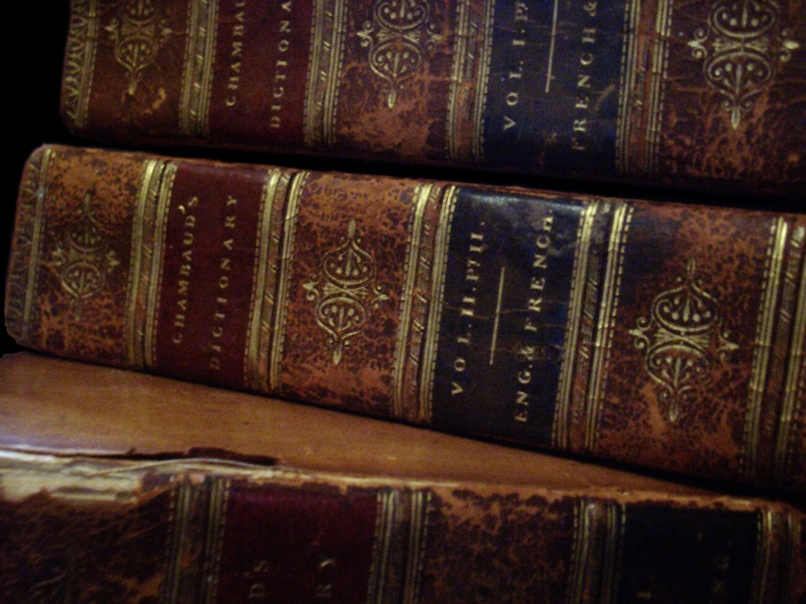 Chambaud’s Dictionary, close-up view showing the leather binding and the gold leaf used for the lettering on the spine.